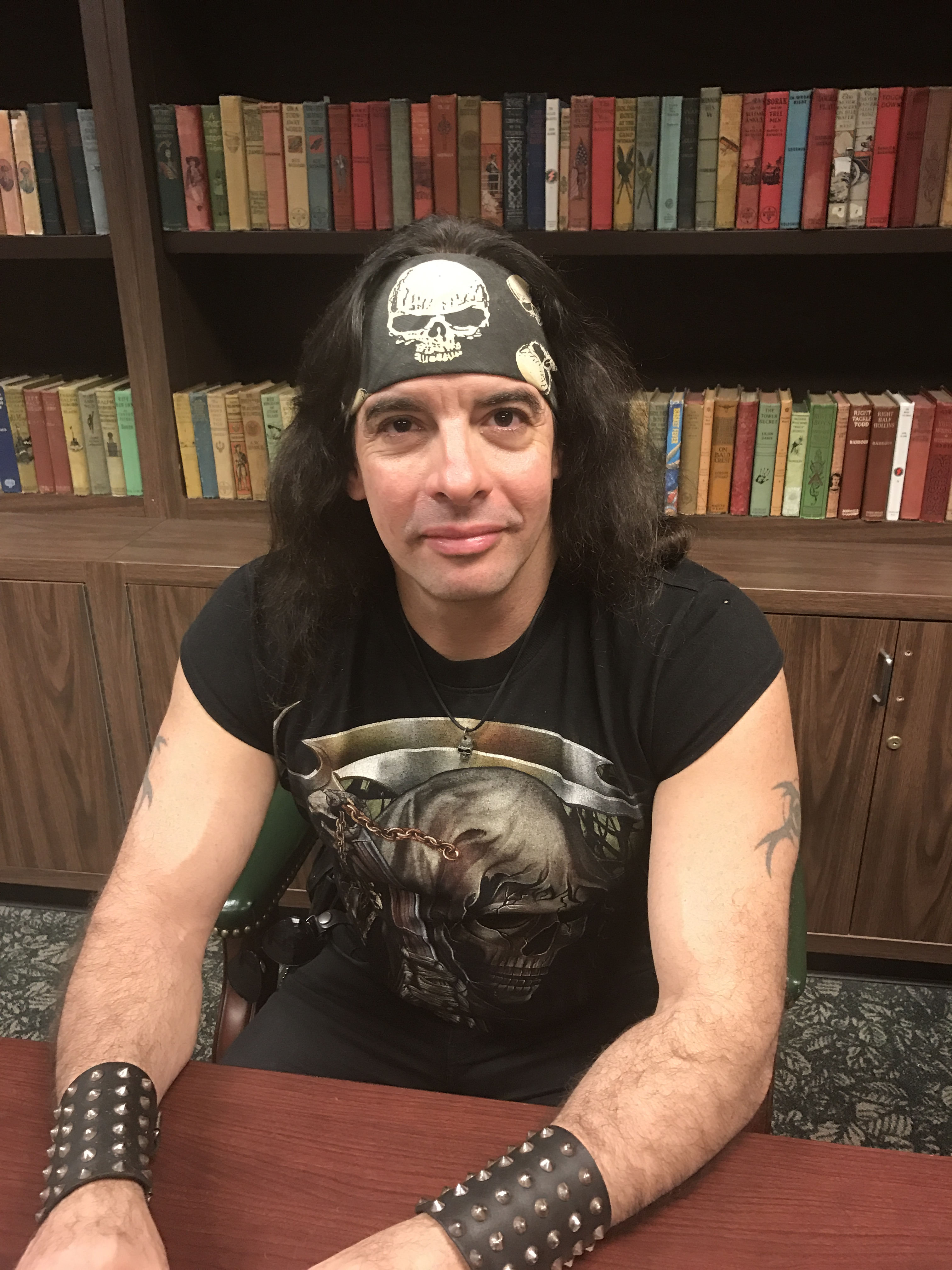 Cuban science fiction author Yoss speaking at the University of South Florida Library.